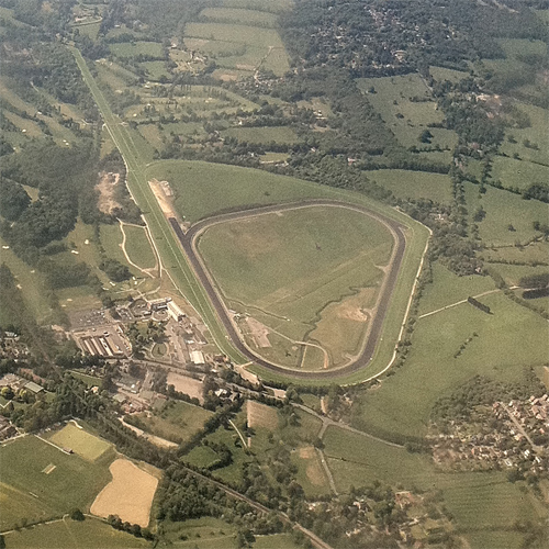 Aerial view of Lingfield Park Racecourse as seen from a British Airways Boeing 737 flying between London Gatwick Airport and Manchester Airport.